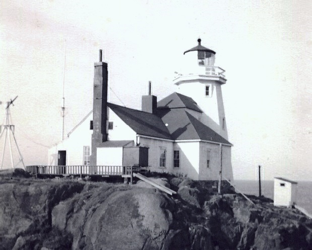 Egg Island - The lighthouse and keeper's house circa 1940, viewed from the northwest side.